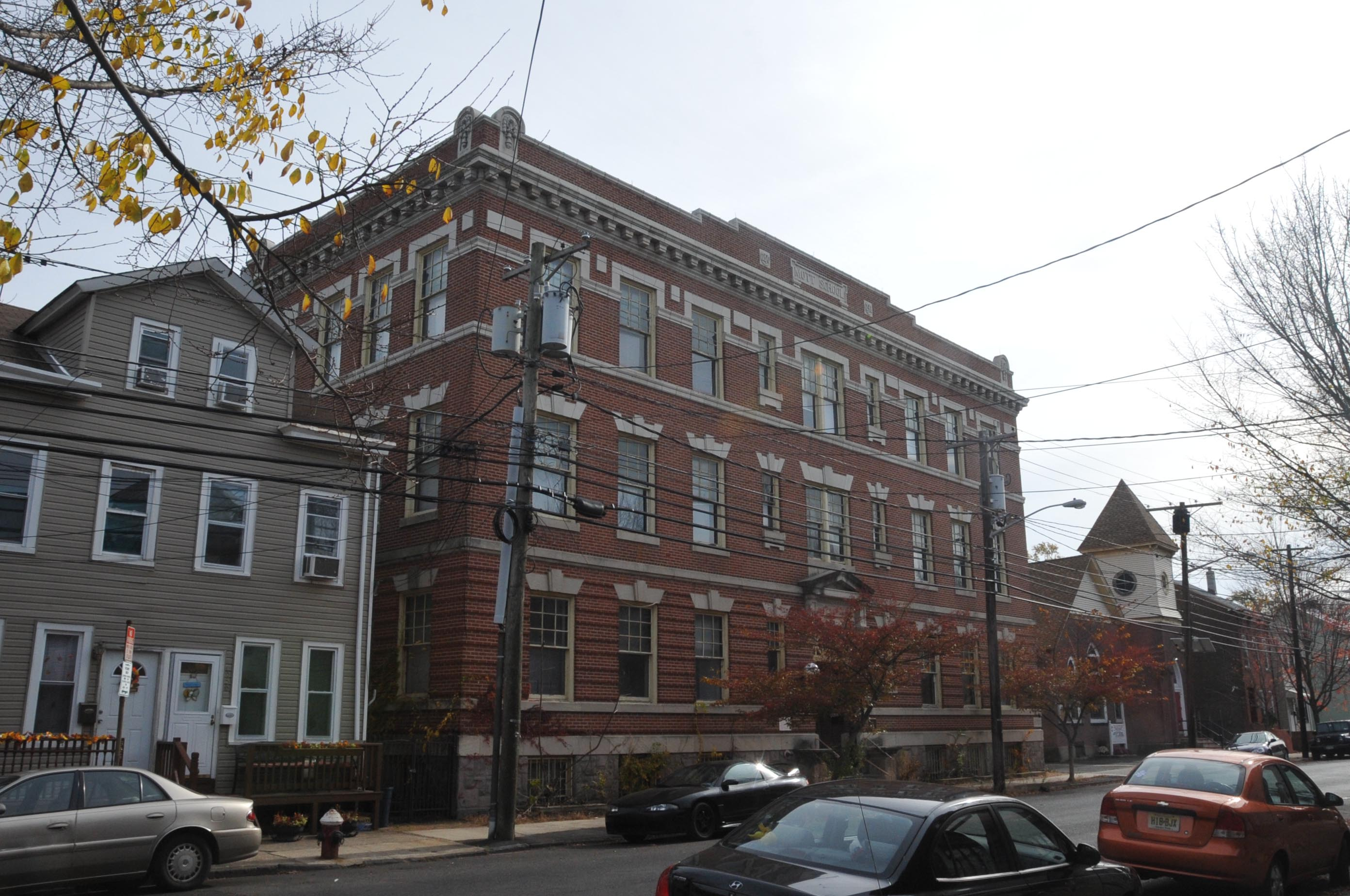 Erected in 1912; it remained a school until 1980. It is known for its architectural design by several well known architects. Now it is an apartment complex.